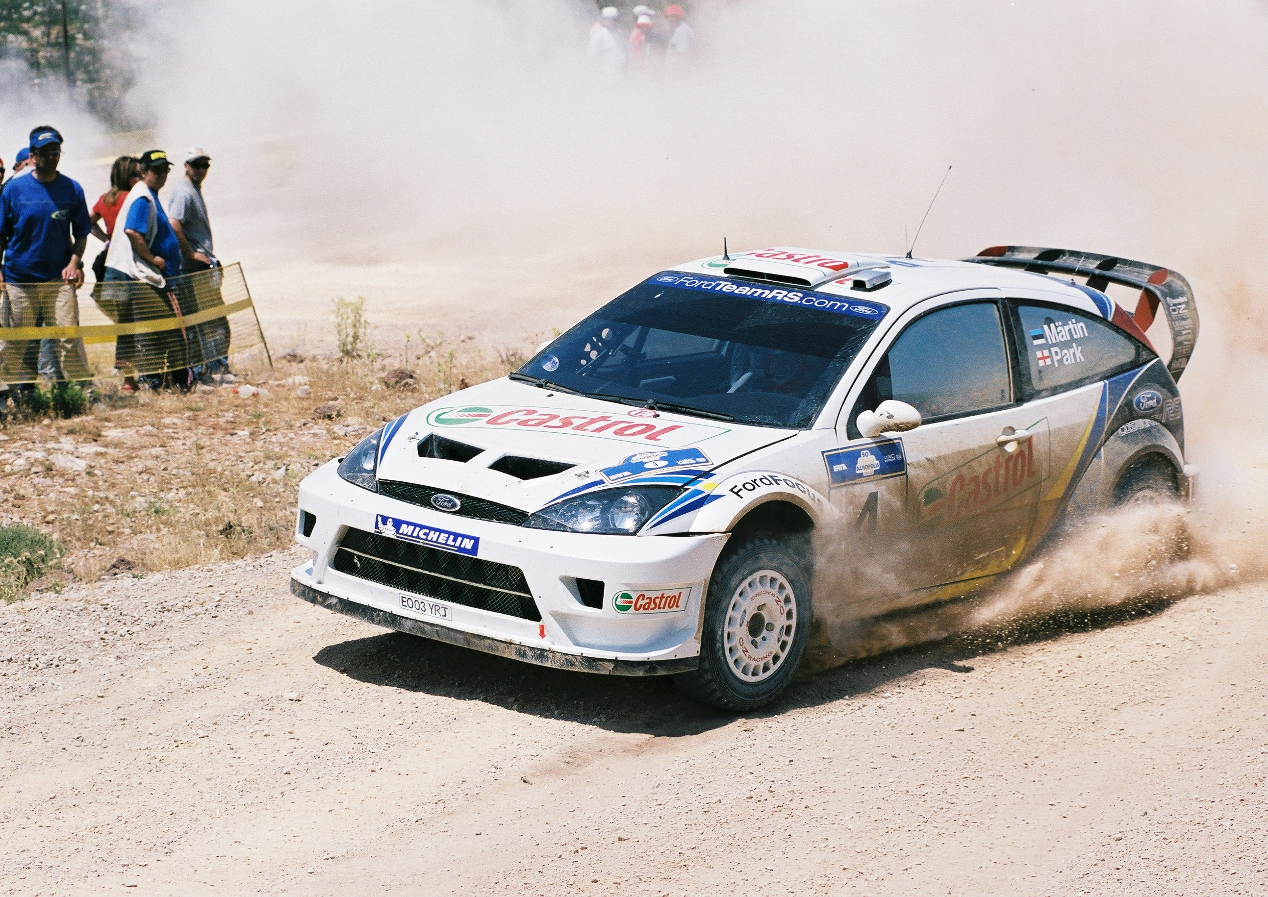 The winners; 4 Markko Märtin and Michael Park in 2003 Rally Acropolis (S.S. ?)